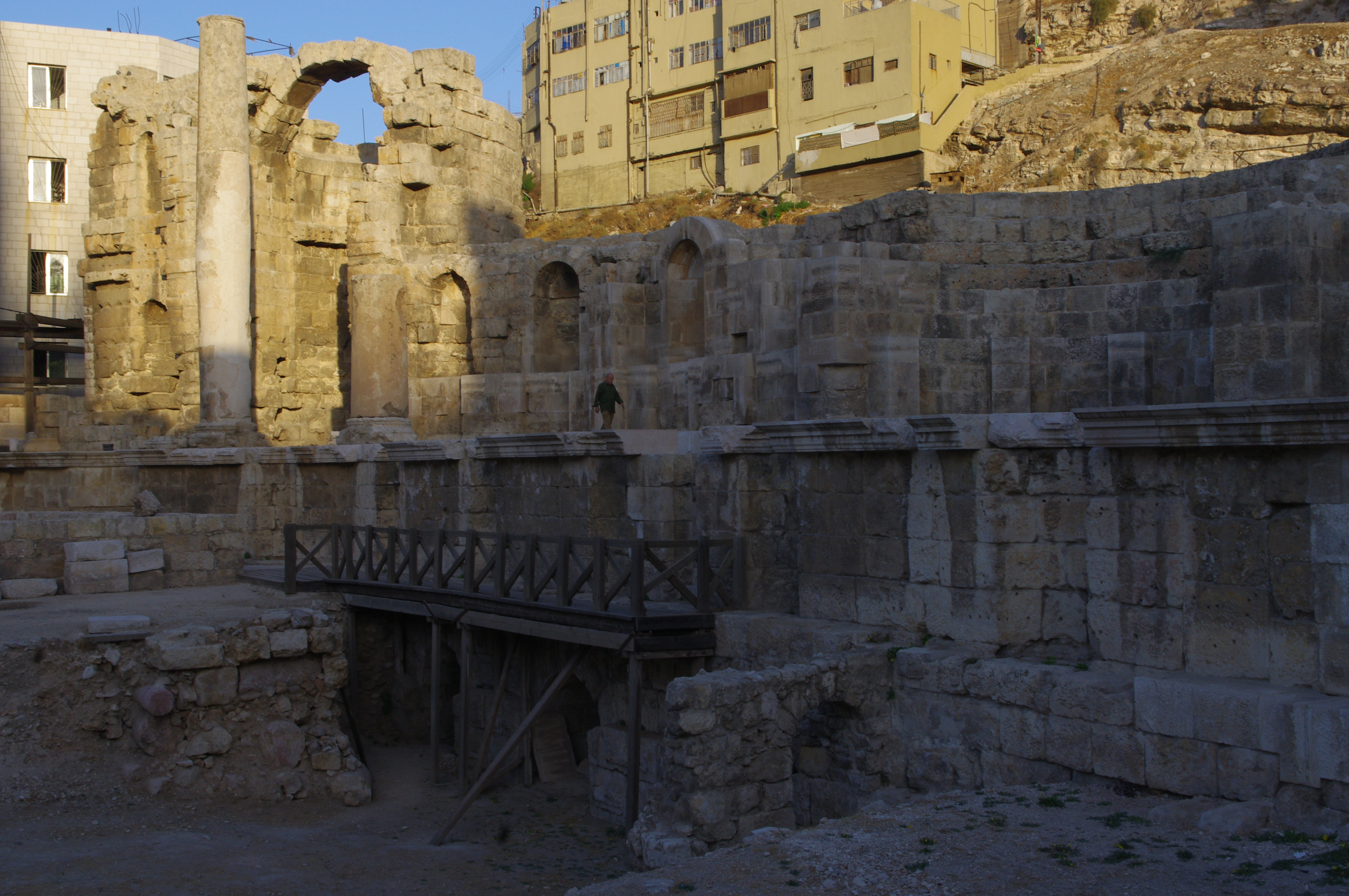 This "Nymphaeum" or public fountain was built in Roman times, around the 2nd century AD. It's huge size reflects what an important city Philadelphia (Amman) was in the Roman period.